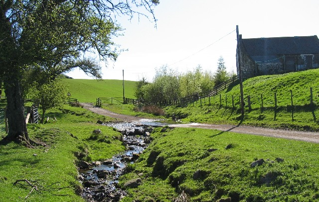 Kilham Valley. Small ford at Longknowe. Follow downstream 165350